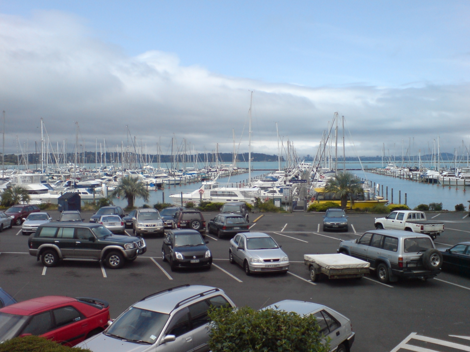 Looking east from the main building of West Park Marina, Waitakere City, New Zealand.